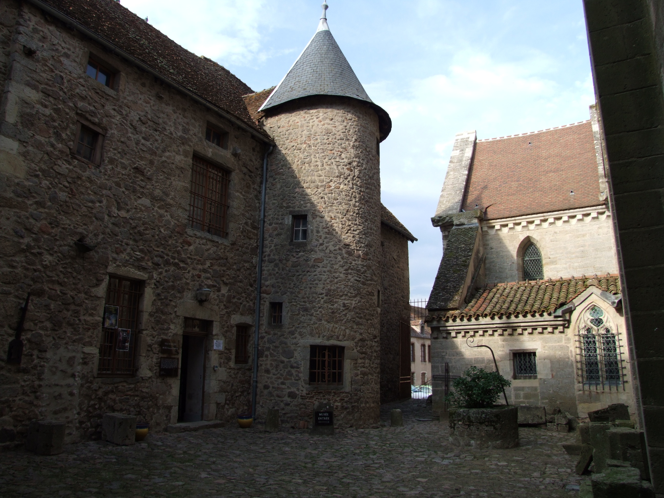 Saulieu, Burgundy, FRANCE